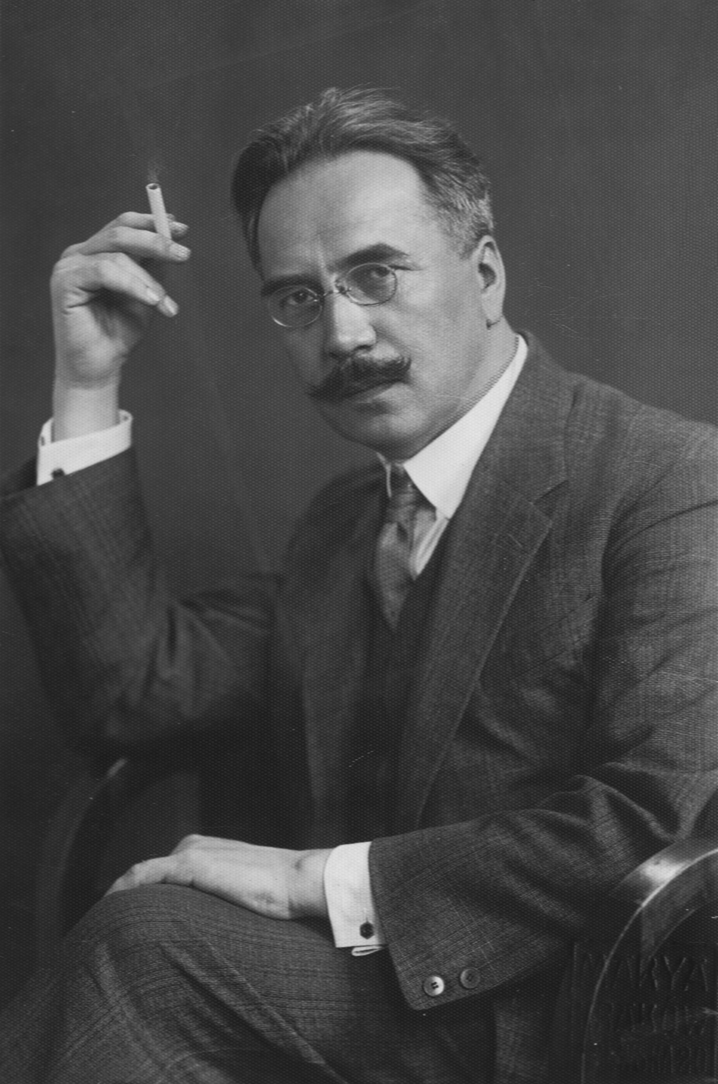 Stanisław Kot (1885-1975) Polish historian and politician, professor of Jagiellonian University 1920-1933, minister in the Polish Government in Exile